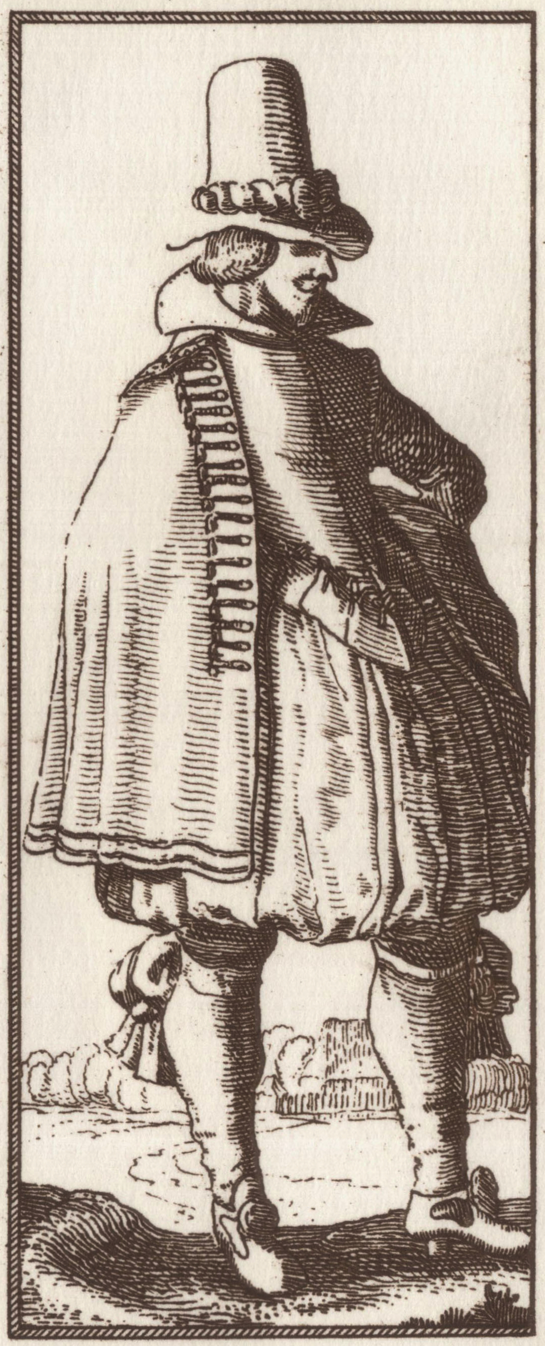 "Civis Parisiensis Bourgeois de Paris" on the map of Paris by Claes Jansz. Visscher.